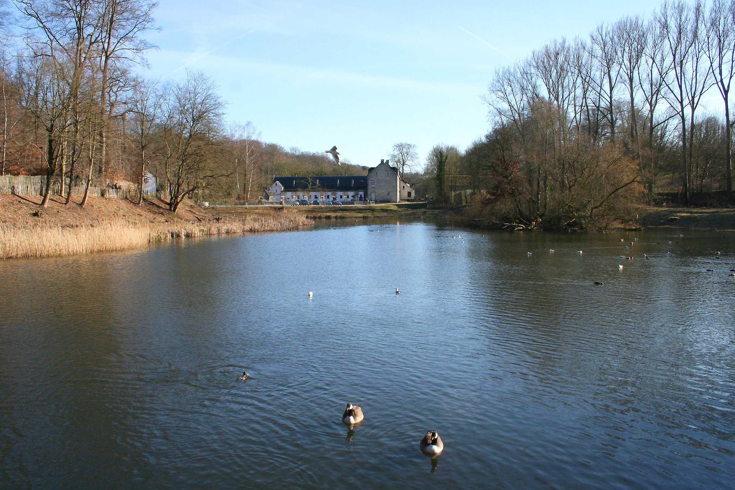 Auderghem (Belgium), the pond "Étang Long" and the buildings of the Rouge-Cloître (Red Cloister) Abbey founded in the XIVth century by the hermit Egide Olivier and the canon Guillaume Daniels.